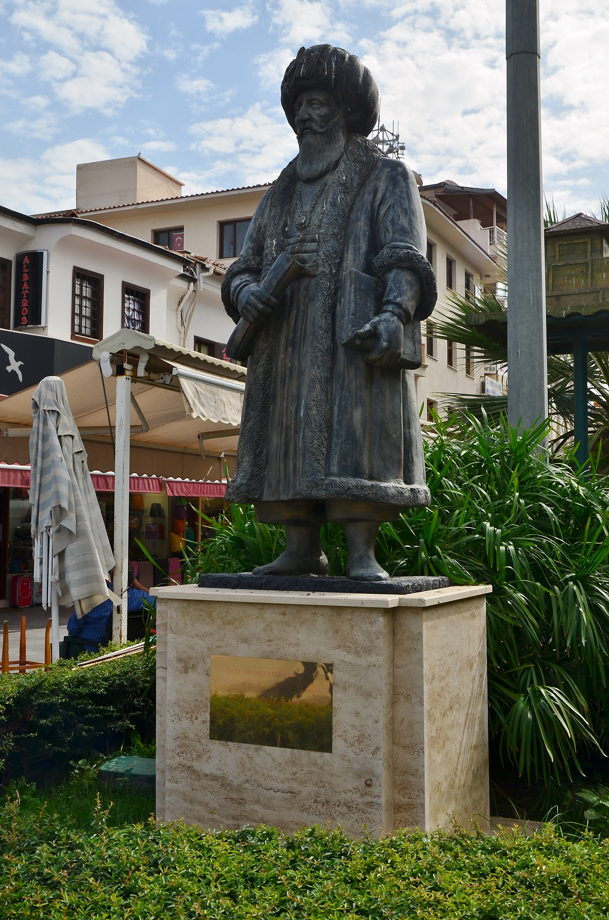 Srarue of Öküz Mehmed Pasha in Kuşadası, Aydın